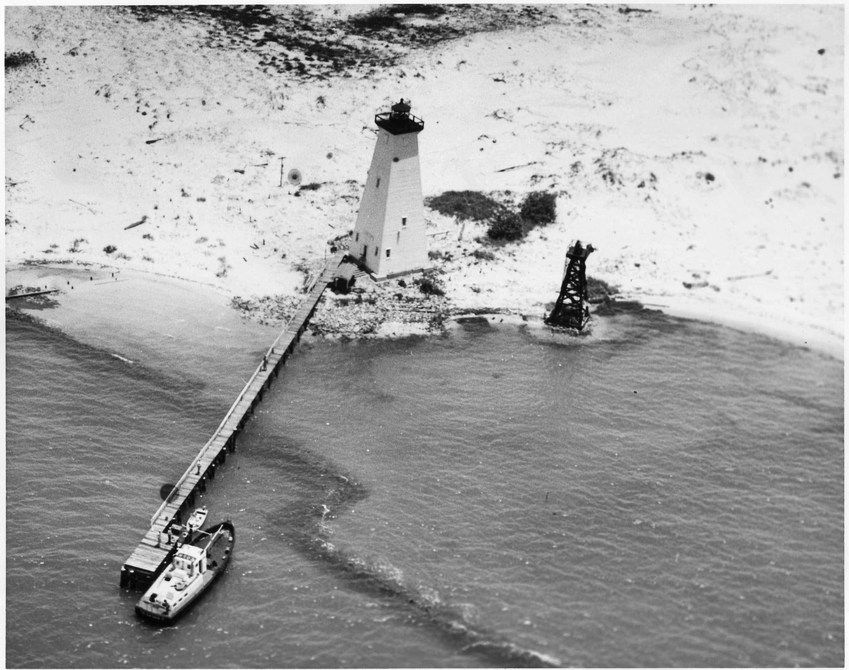 Coast Guard archive photo of Ship Island Light. Original caption: "SHIP ISLAND LIGHT (MISS.)."; Photo dated 16 July 1954; Photo No. 8 CGD 071654-01; photographer unknown. Aerial view of station and pier.